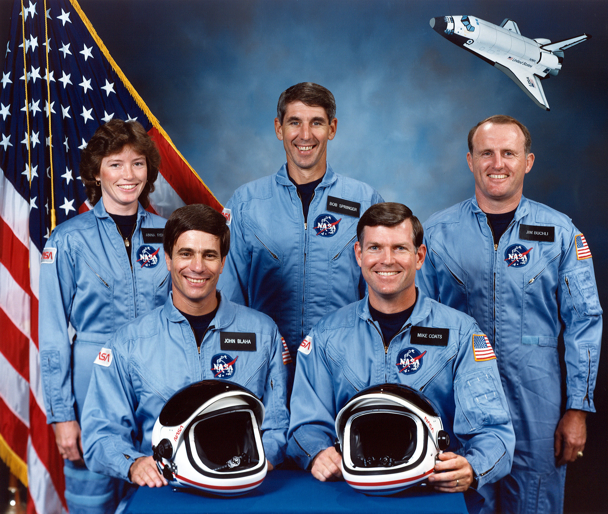 The crew for STS-61-H, which was cancelled after the loss of Space Shuttle Challenger.